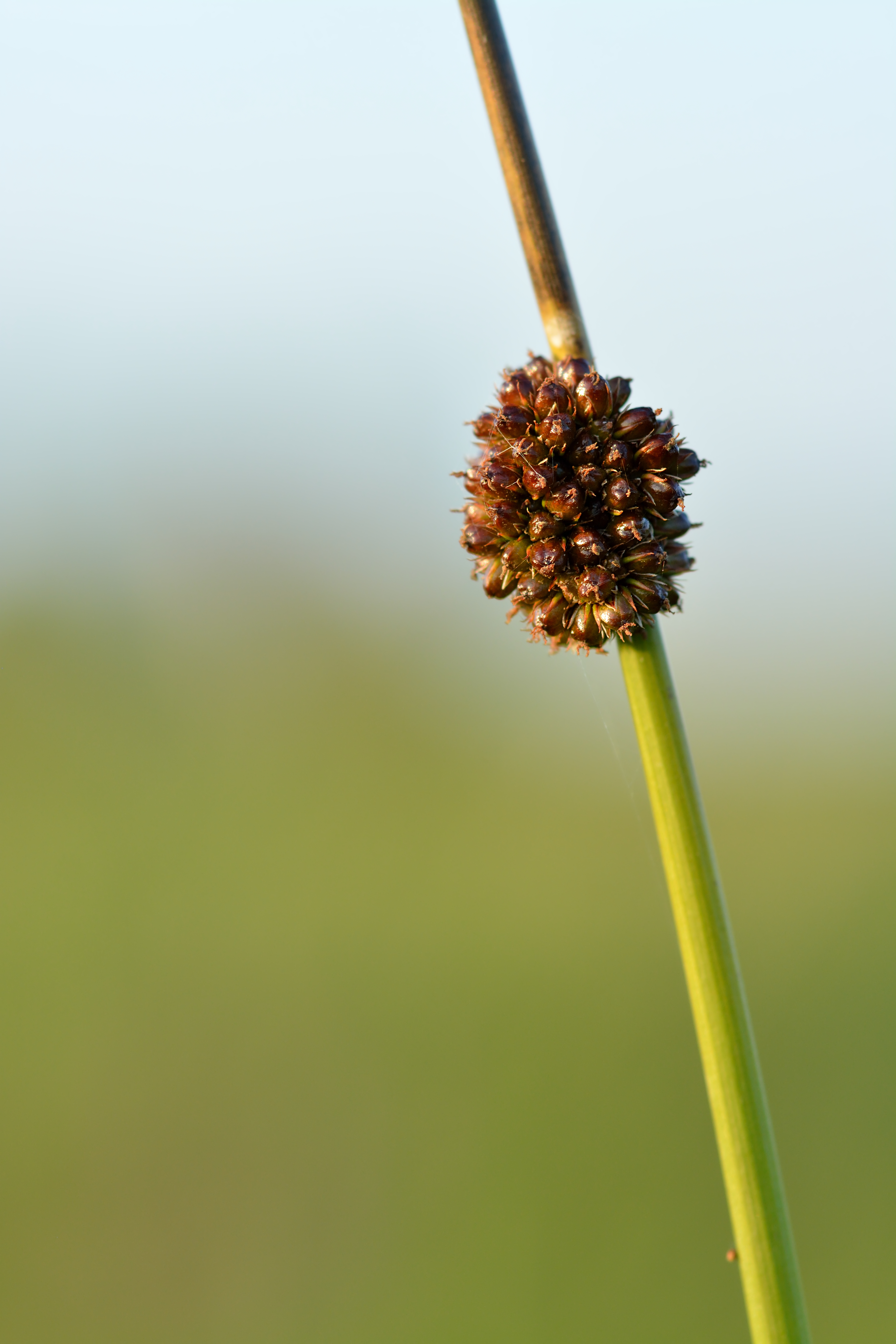 Juncus conglomeratus - compact rush in Keila, Estonia.